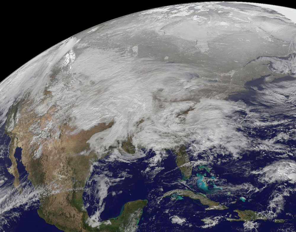 Satellite image of the Late January-Early February 2011 North American winter storm blanketing nearly much of the Contiguous United States, on January 31, 2011.